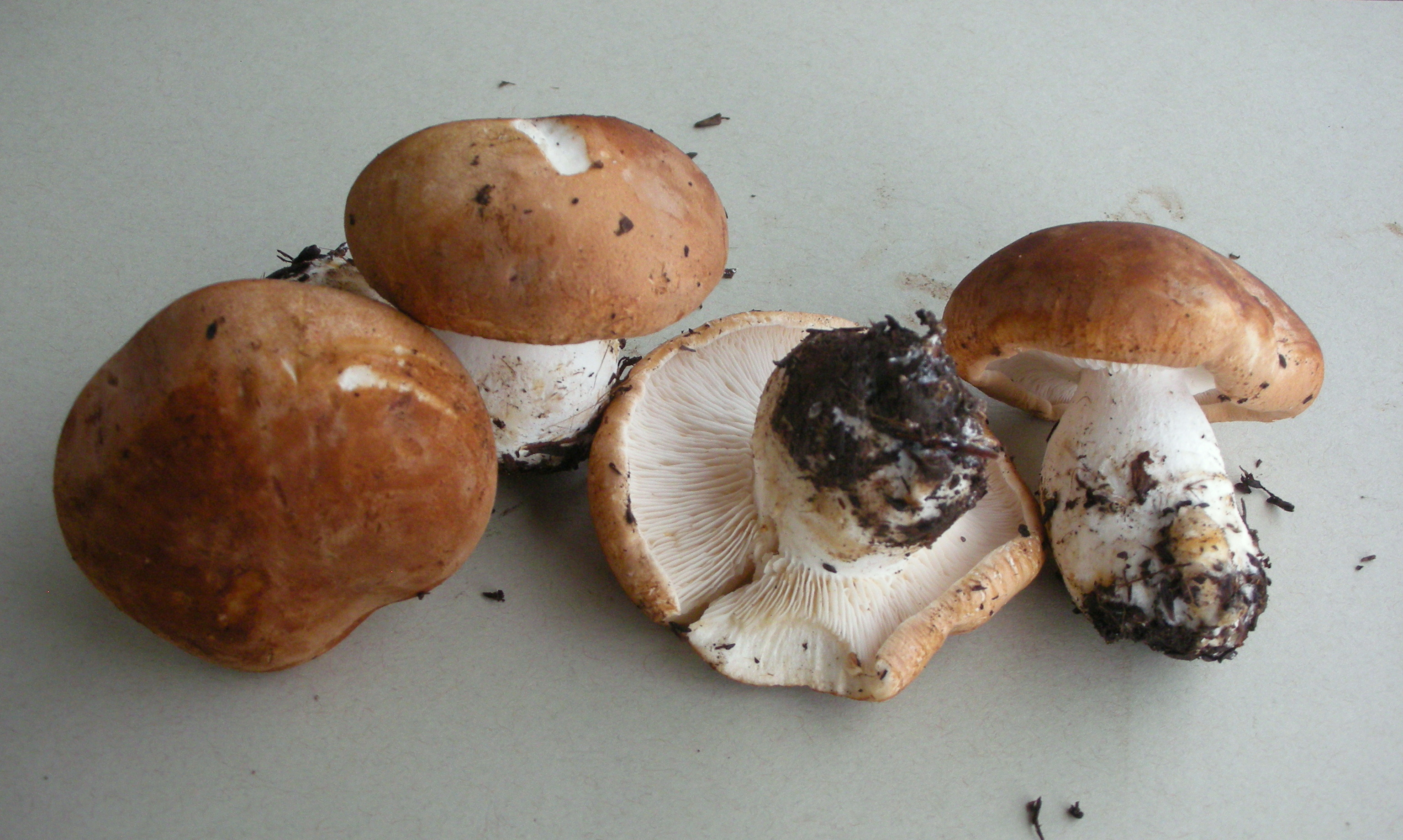 Fruit bodies of the agaric fungus Leucopaxillus gentianeus (Quél.) Kotl. Collection from San Geronimo, Marin Co., California, USA.